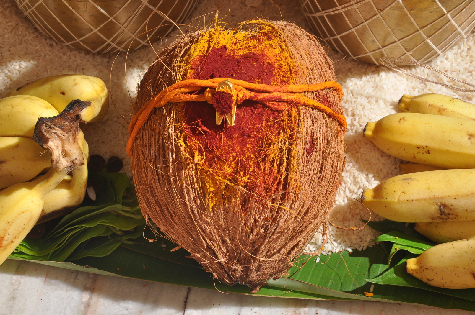 This is called "Thali" in Tamil. A holy stuff wear by every married women.